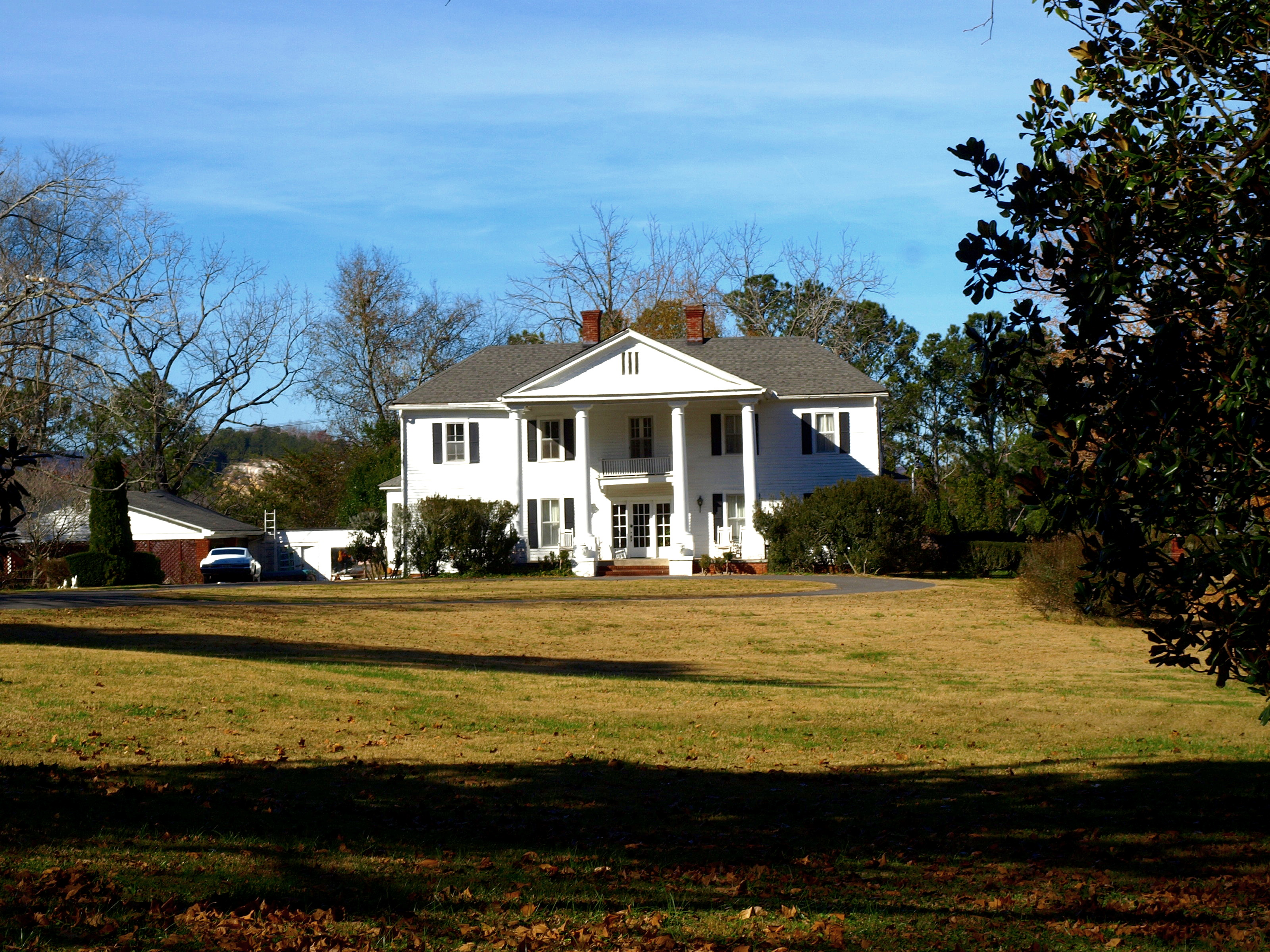 Cherokee Plantation in Fort Payne, Alabama, listed on the National Register of Historic Places